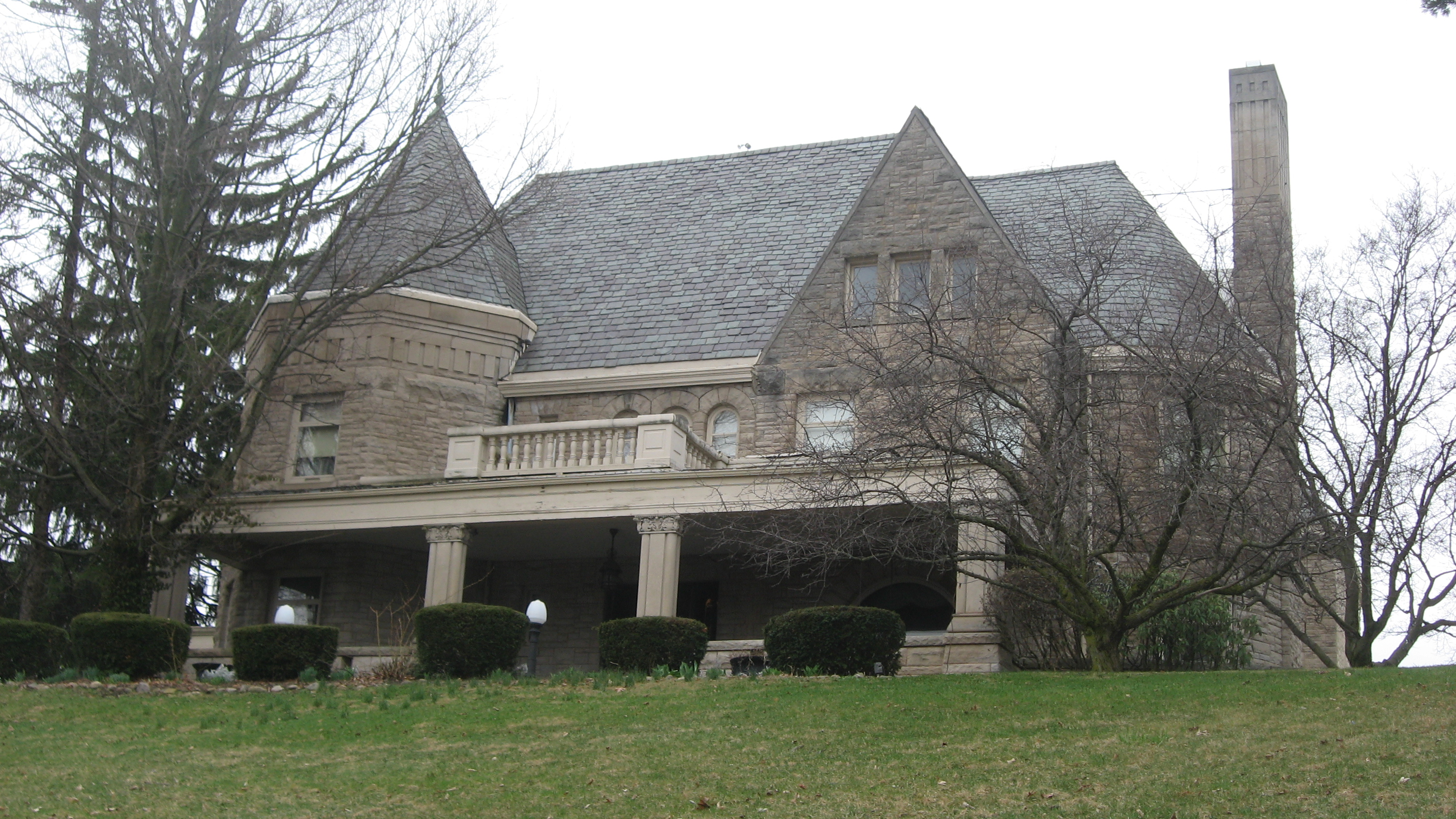 Front of the Whitby Mansion (now a bed and breakfast), located at 429 N. Ohio Avenue (State Route 29) in Sidney, Ohio, United States. Built in 1890, it is listed on the National Register of Historic Places.